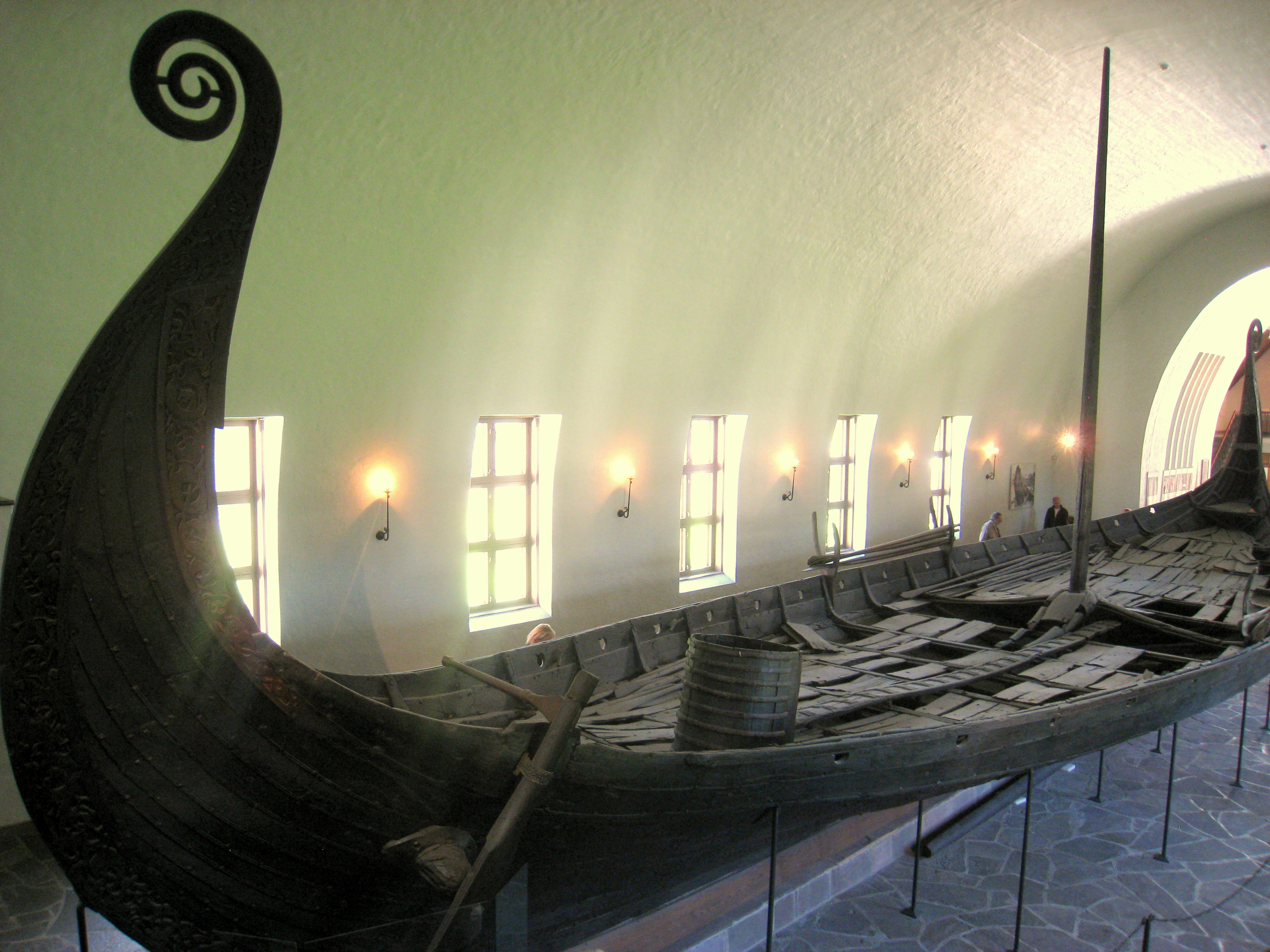 Oseberg ship, Kulturhistorisk museum (Viking Ship Museum), Oslo, Norway.